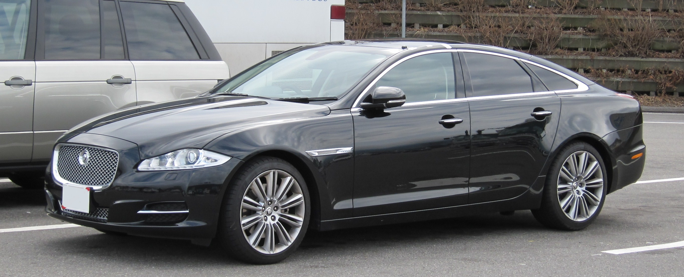 Jaguar XJ